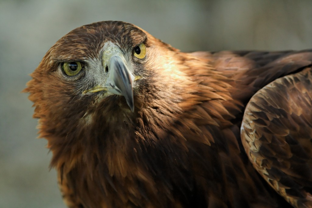 Donjon des Aigles Located in a XIe century castle overlooking the Gave de Pau valley, this bird center hosts more than 45 species of birds of prey and presents fantastic air shows every day. Beaucens, Pyrénées, April 2006 Published in LPO brochure, January 2007